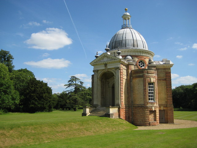 Wrest Park: The Pavilion This garden pavilion was designed in the Baroque style by Thomas Archer (1668-1743) and built between 1709 and 1711. It stands at the far southern end of the vista from 871720.